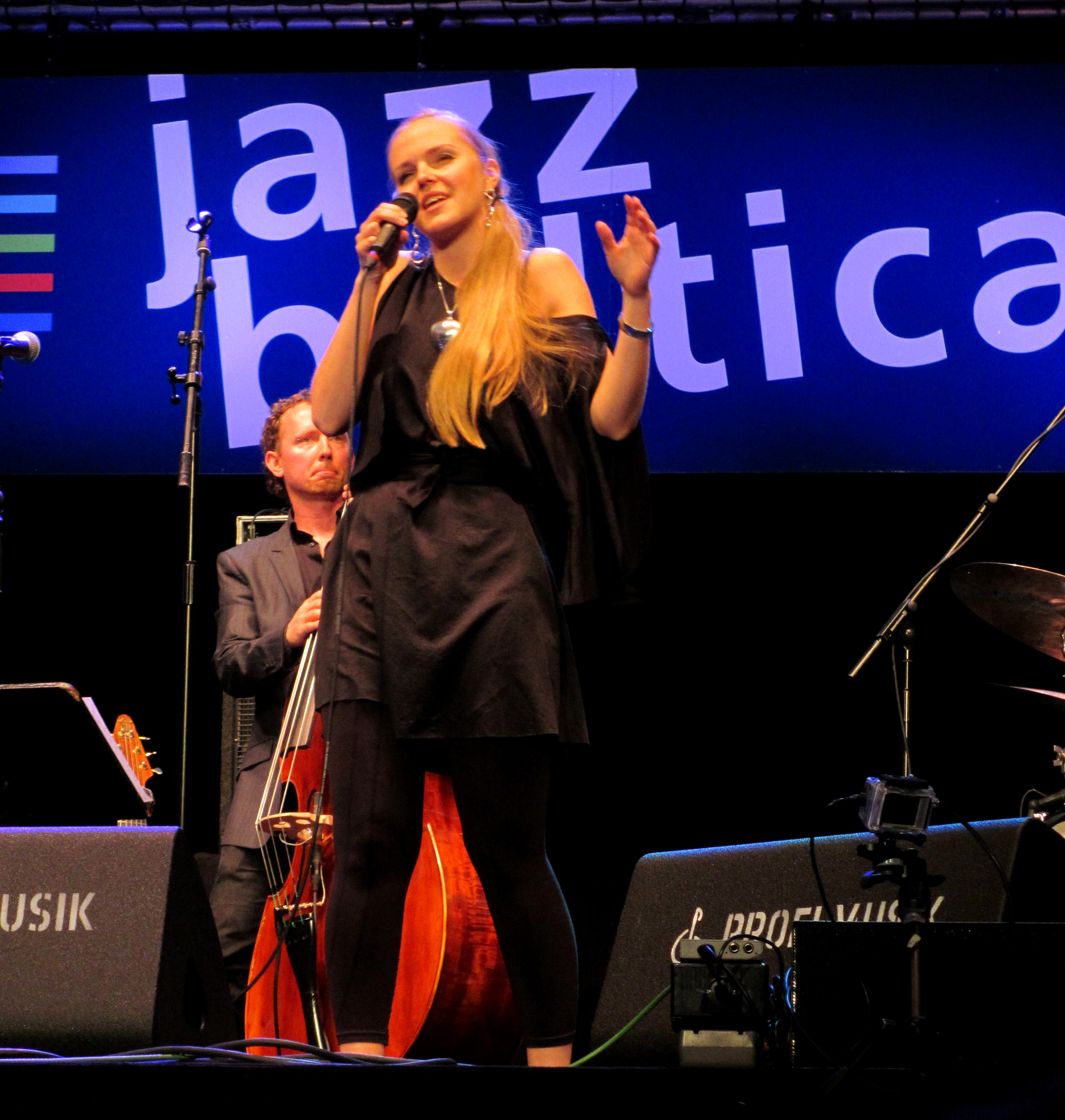 Estonian jazz vocalist and musician Kadri Voorand at jazz baltica 2013